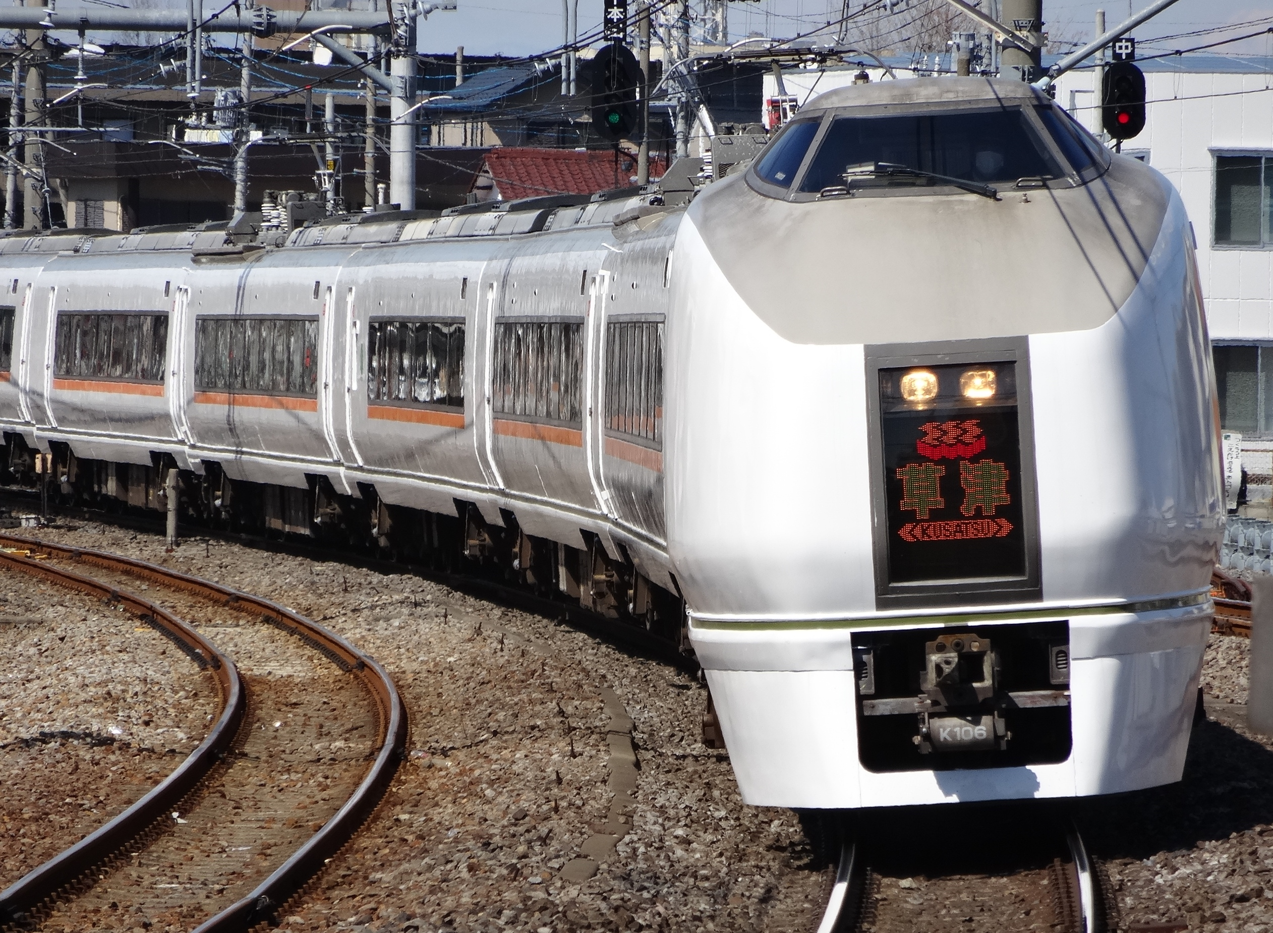 JR East 651-1000 series EMU set K106 approaching Miyahara Station on a Kusatsu limited express service